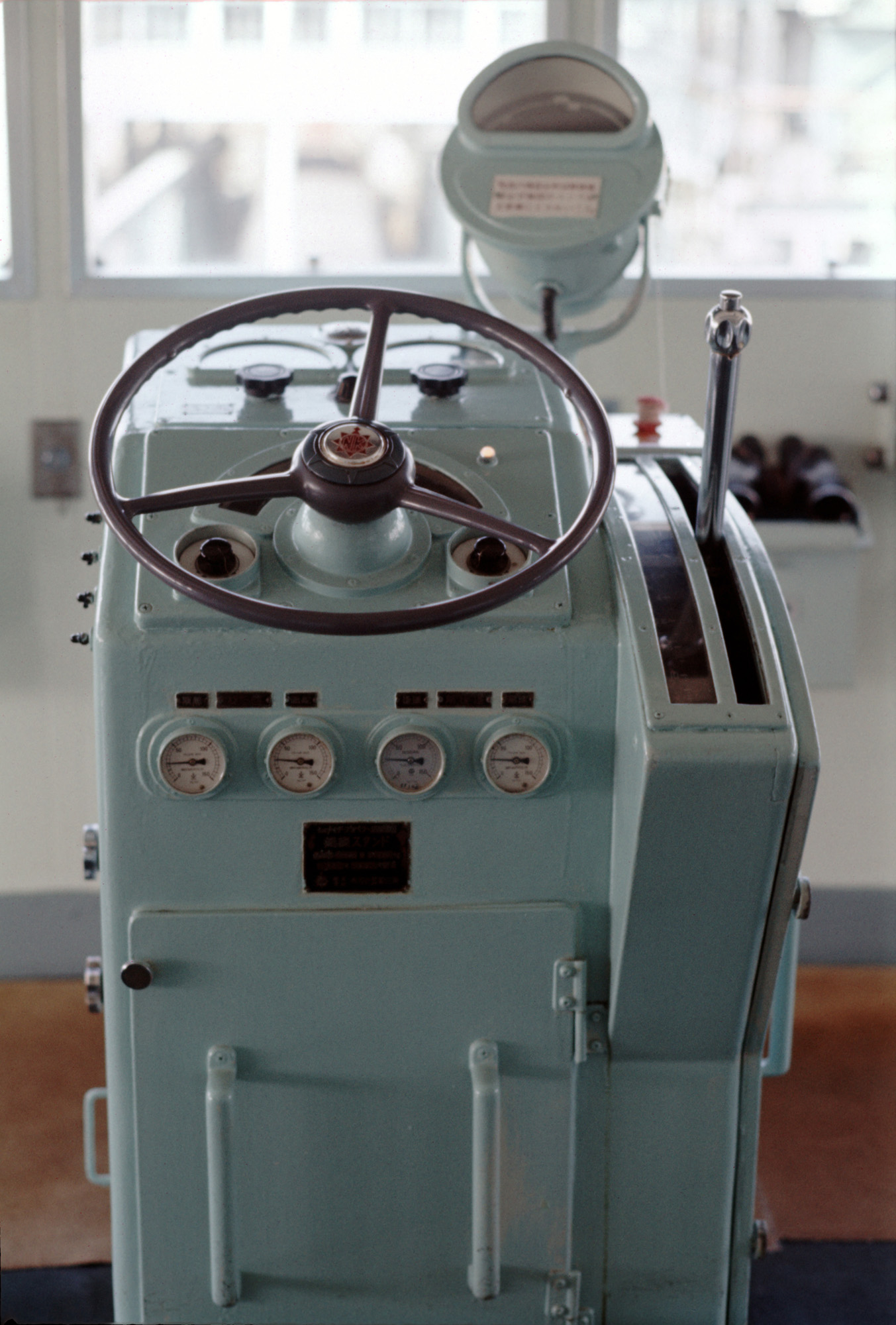 MS SANUKI MARU1 Voith Schneider Propeller control stand in Wheelhouse